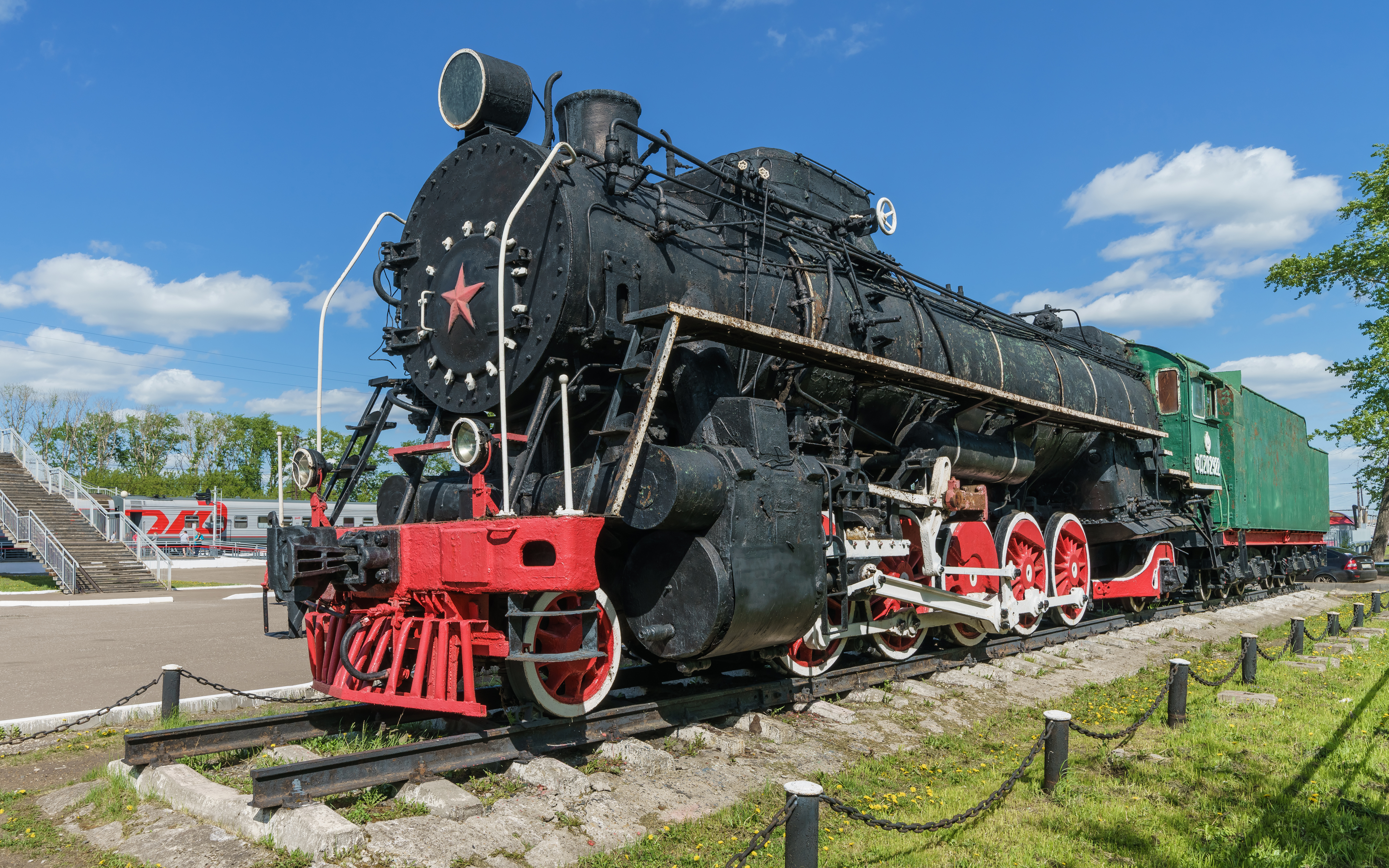 Soviet FD20 steam locomotive exposed at Zuevka railway station, Kirov Oblast, Russia